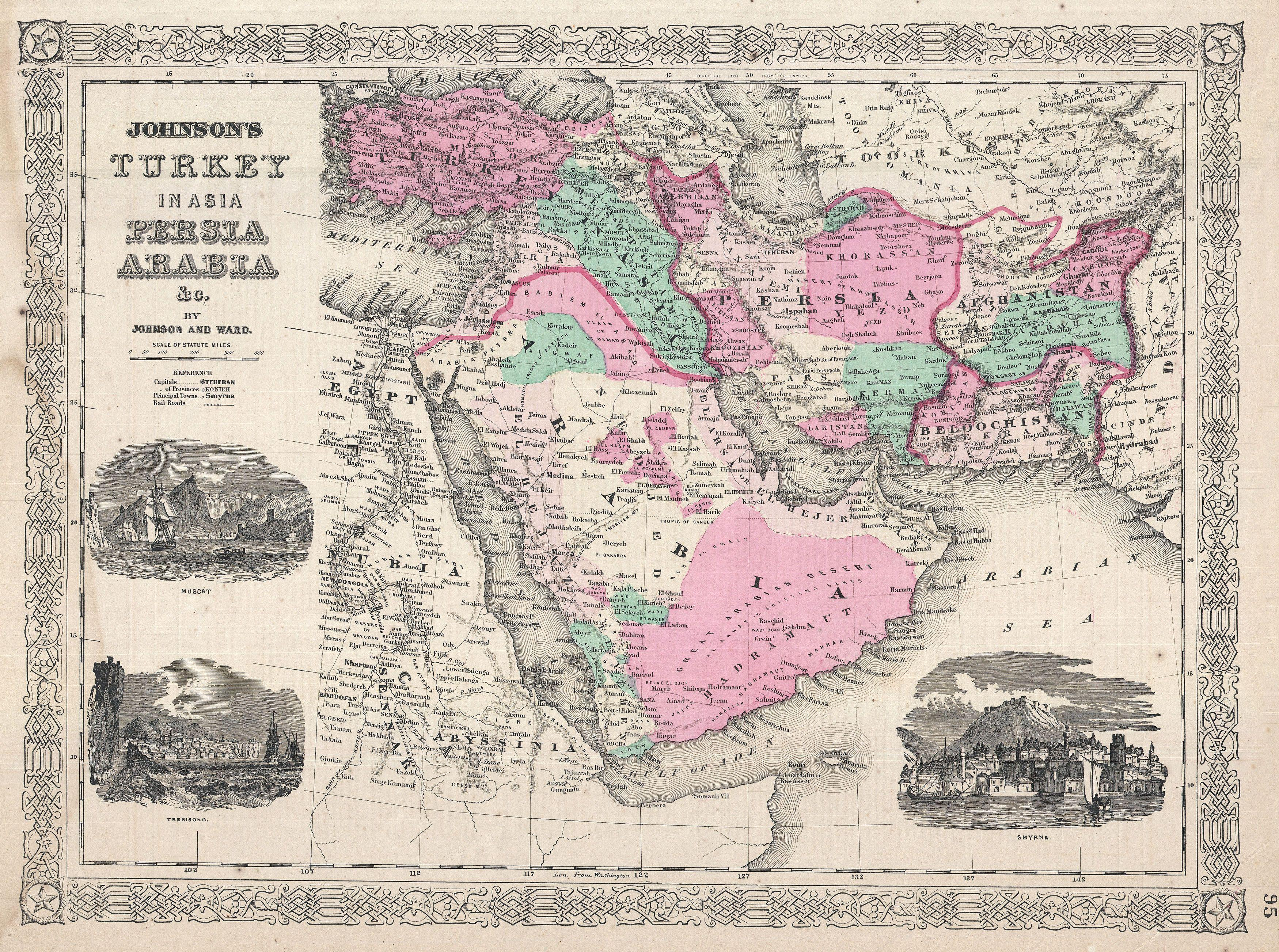 A very nice example of A. J. Johnson’s 1866 map of Arabia, Persia and Turkey in Asia. Covers from the Mediterranean and Egypt eastwards as far as the Mouths of the Indus River, as well as southward as far as the Horn of Africa and northwards to the Black Sea. Depicts most of the politically volatile modern day middle east, including the nations of Afghanistan, Iraq, Iran, Saudi Arabia, Jordan, Israel, Syria, Lebanon and Turkey. Offers color coding according to country and region as well as notations regarding desert caravan routes, oases, roadways, river systems, forts and monasteries, and some topographical features. Ostensibly this map is very similar to Colton's 1858 map of the same region, however, there are a number of significant differences. Johnson reduced Colton's original map in order to expand the map westward by about 10 degrees, making it possible for him to incorporate all of Turkey as well as add significant detail in northwestern Africa and the Nile Valley. Johnson's retooling of the map also allowed for the addition of his three attractive woodcut views: Muscat (lower left), Trebisond (lower left) and the Castle and Port of Smyrna (lower right). Features the fretwork style border common to Johnson’s atlas work from 1864 to 1869. Published by A. J. Johnson and Ward as plate number 95 in the 1865 edition of Johnson’s New Illustrated Family Atlas. This is the last edition of the Family Atlas to bear the Johnson and Ward imprint.